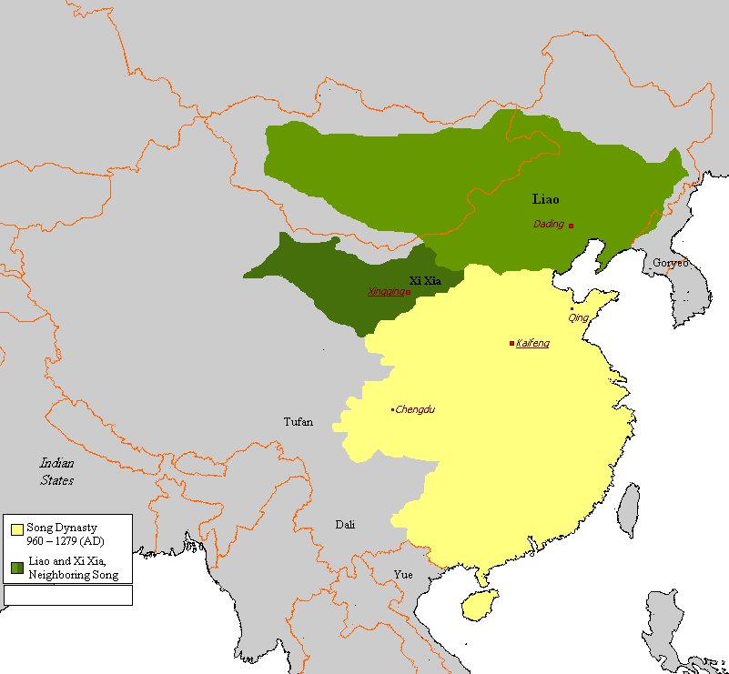 Song Dynasty 960 – 1279 (AD)